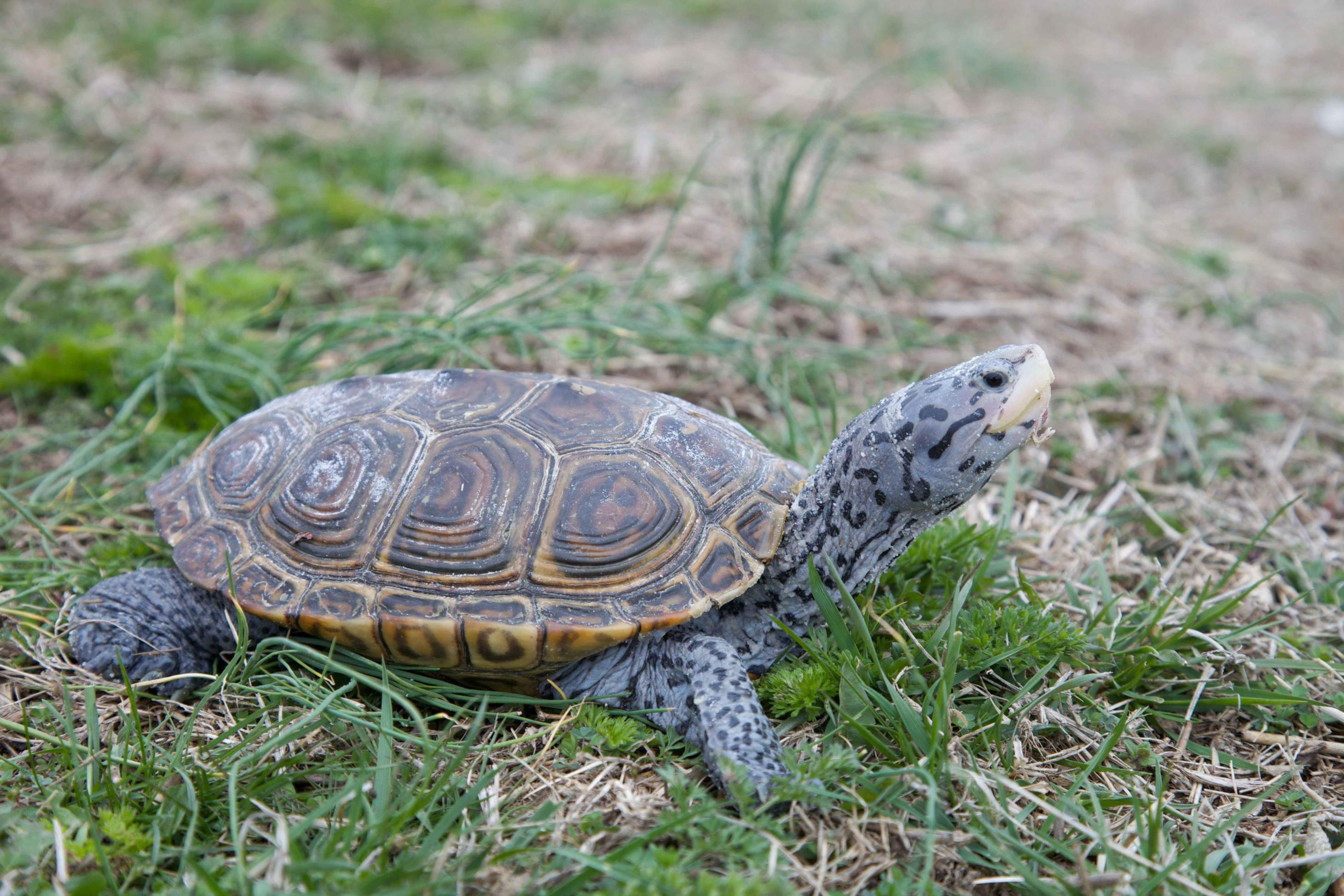 Image title: Diamond terrapin turtle reptile malaclemys terrapin Image from Public domain images website